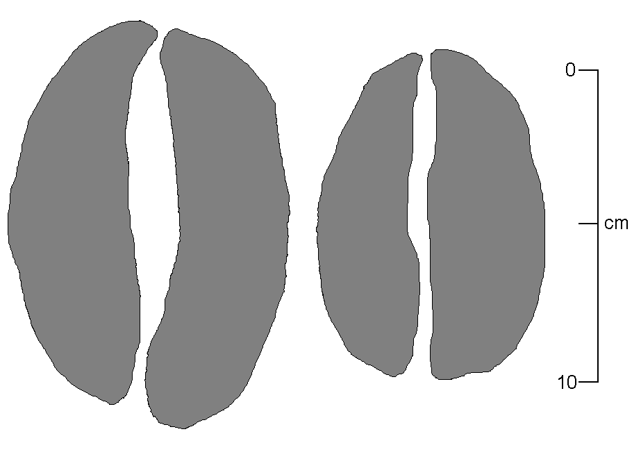 The spoor of an African Buffalo (Syncerus caffer).